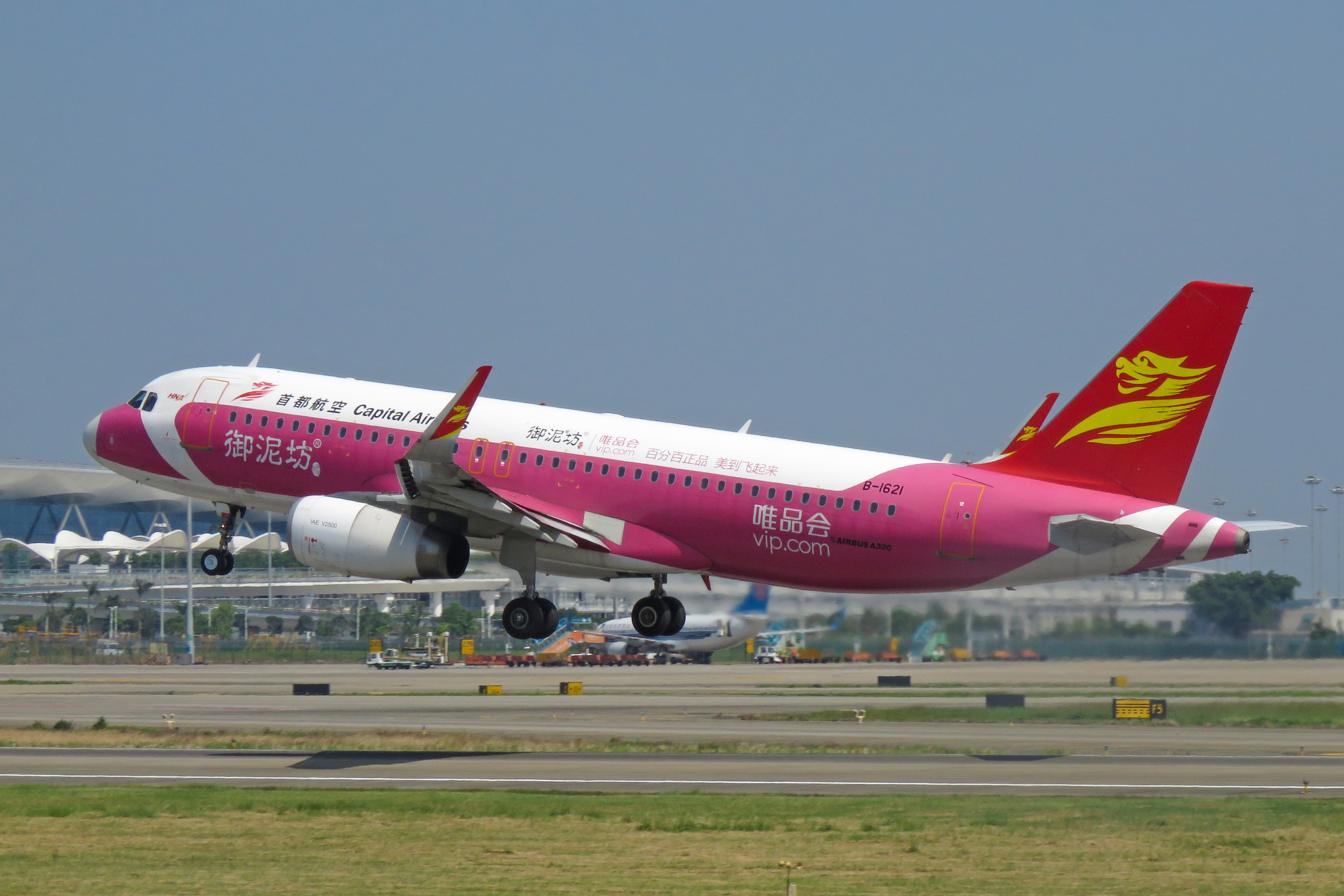 Shenlu 5738 to Lijiang, with livery.